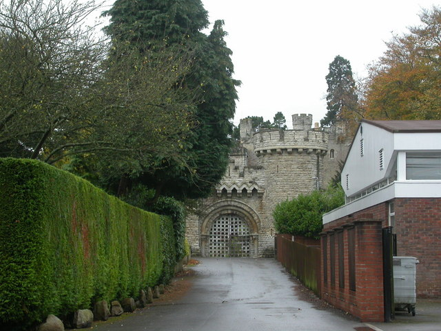 Entrance, Devizes Castle 19th century, replacing earlier versions destroyed or burnt, so this one probably didn't see much action. Now privately owned and without public access.